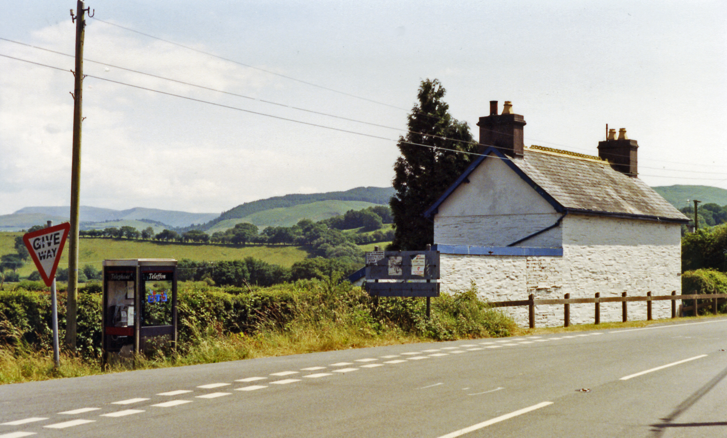 Site/remains of Ffridd Gate station, beside A487 near confluence of Afon Dulas with Dovey Valley. View southward, towards Machynlleth: this was the first station out of Machynlleth on the narrow-gauge line up the Afon Dulas valley to Corris and Aberllefeni, closed long ago - 1/1/31. Across the Dovey Valley nearby are the hills beside the Afon Llyfnant and in the distance is the Plynlimon Fawr massif rising to 2,469 ft.